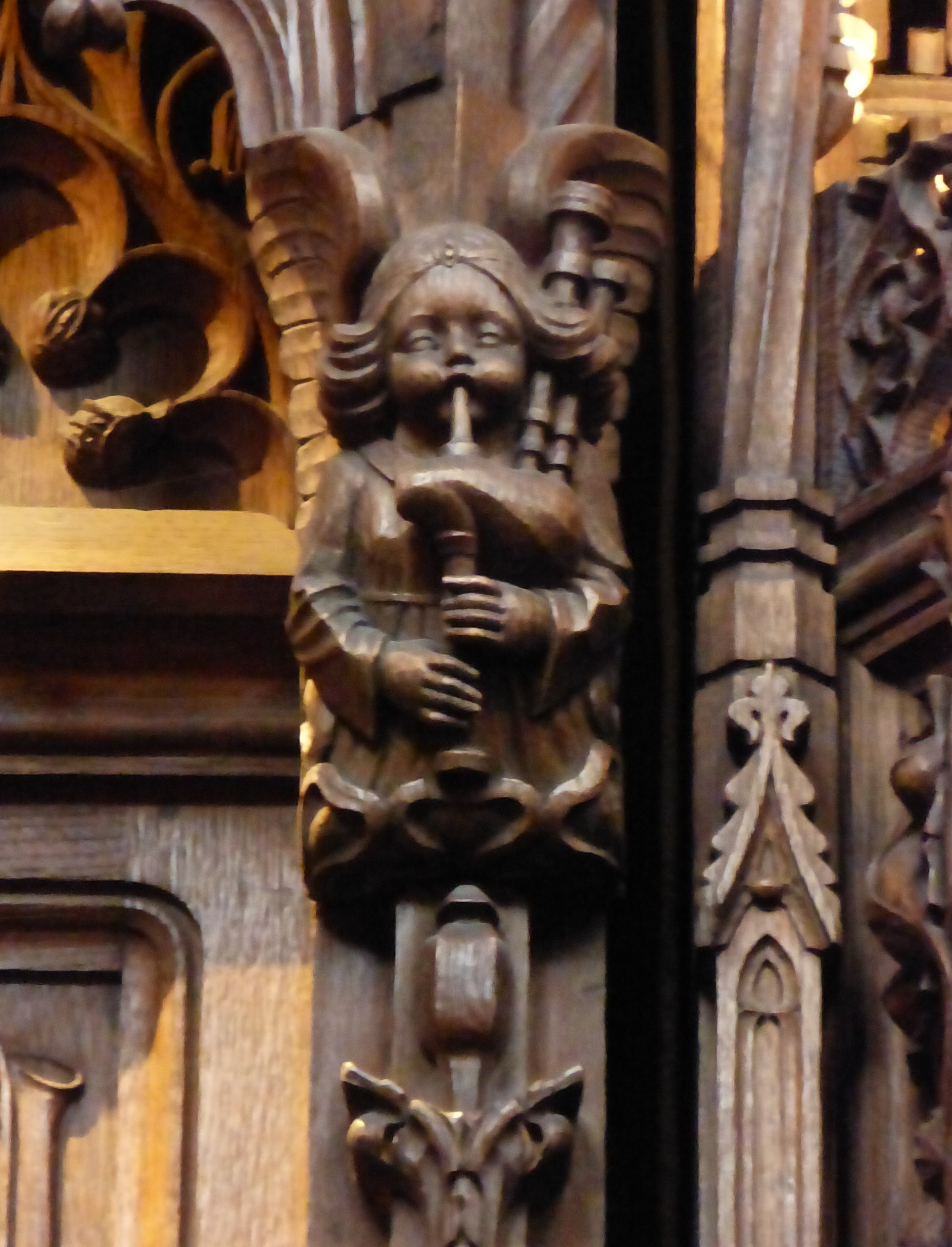 Angel playing bagpipes in the Thistle Chapel, St. Giles, Edinburgh. The carvings in the chapel (1911) are by the brothers William and Alexander Clow.